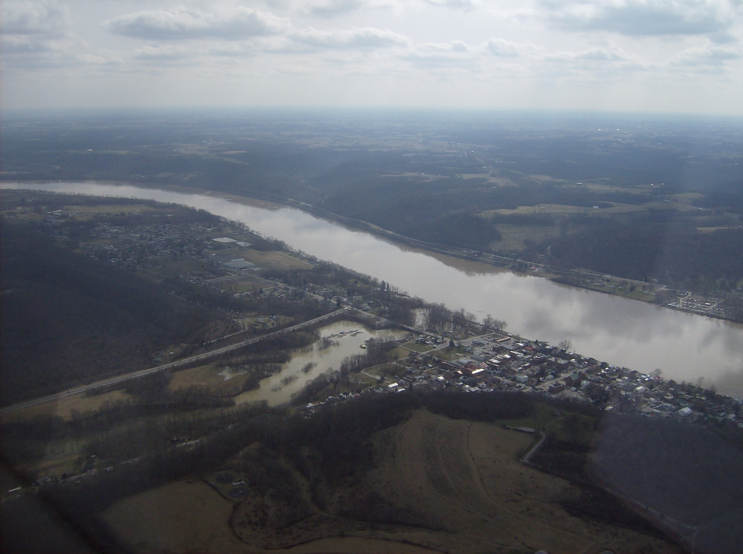 Aerial view of Ripley, an Ohio River community in the United States. The north side of the river (including Ripley) is in Brown County, Ohio, and the south side is in Mason County, Kentucky. Picture taken from Diamond Eclipse light airplane at an altitude of 2,400 feet MSL at an bearing of approximately 167º.